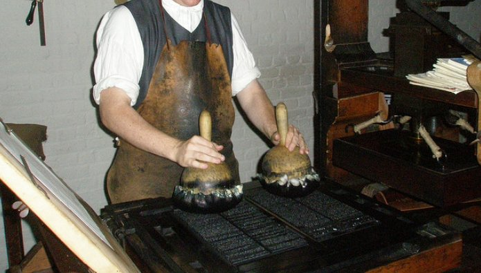 Inking the press types at Colonial Williamsburg print shop